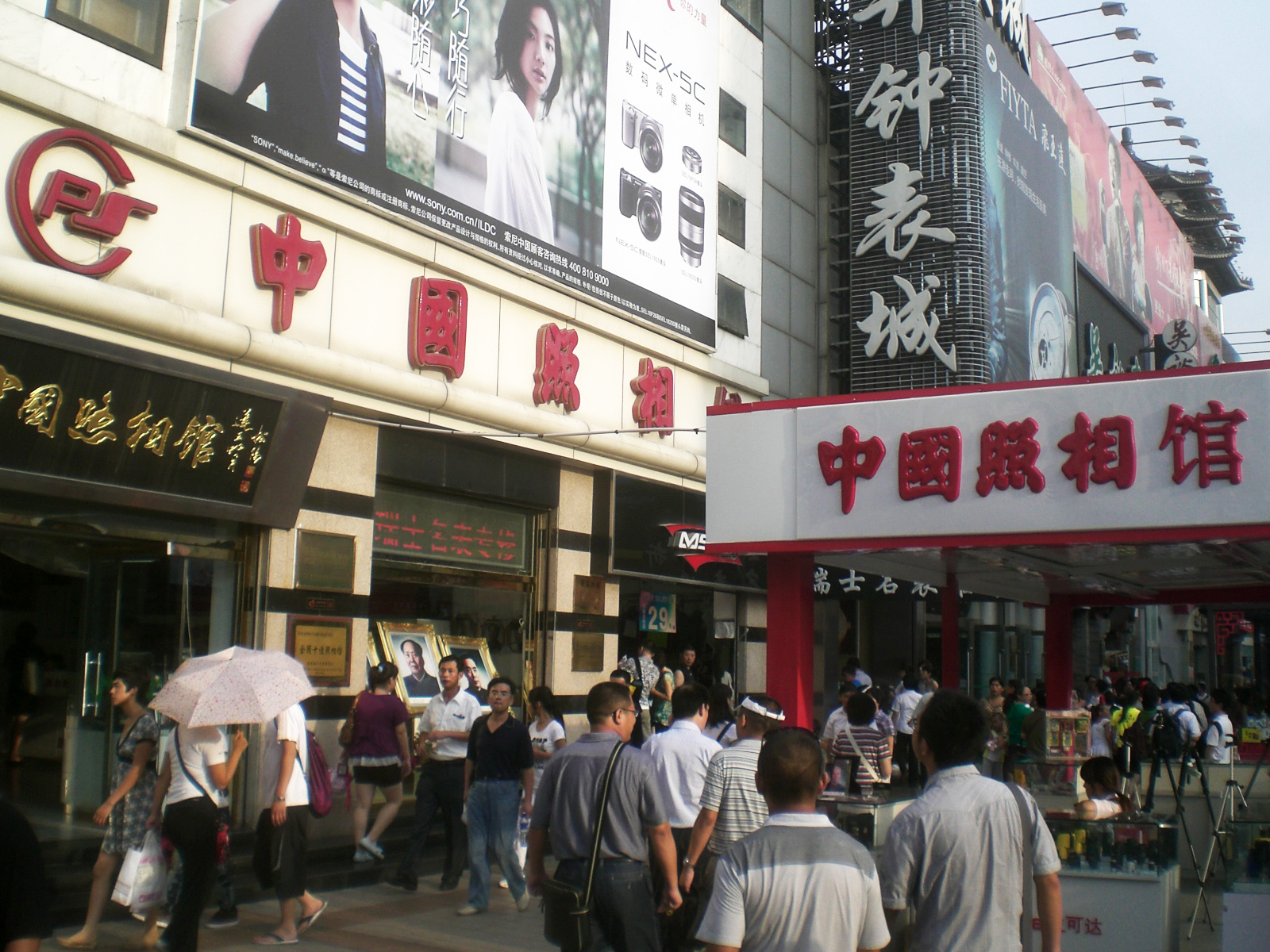 北京市東城區王府井王府井大街 中國照相館 行人專區